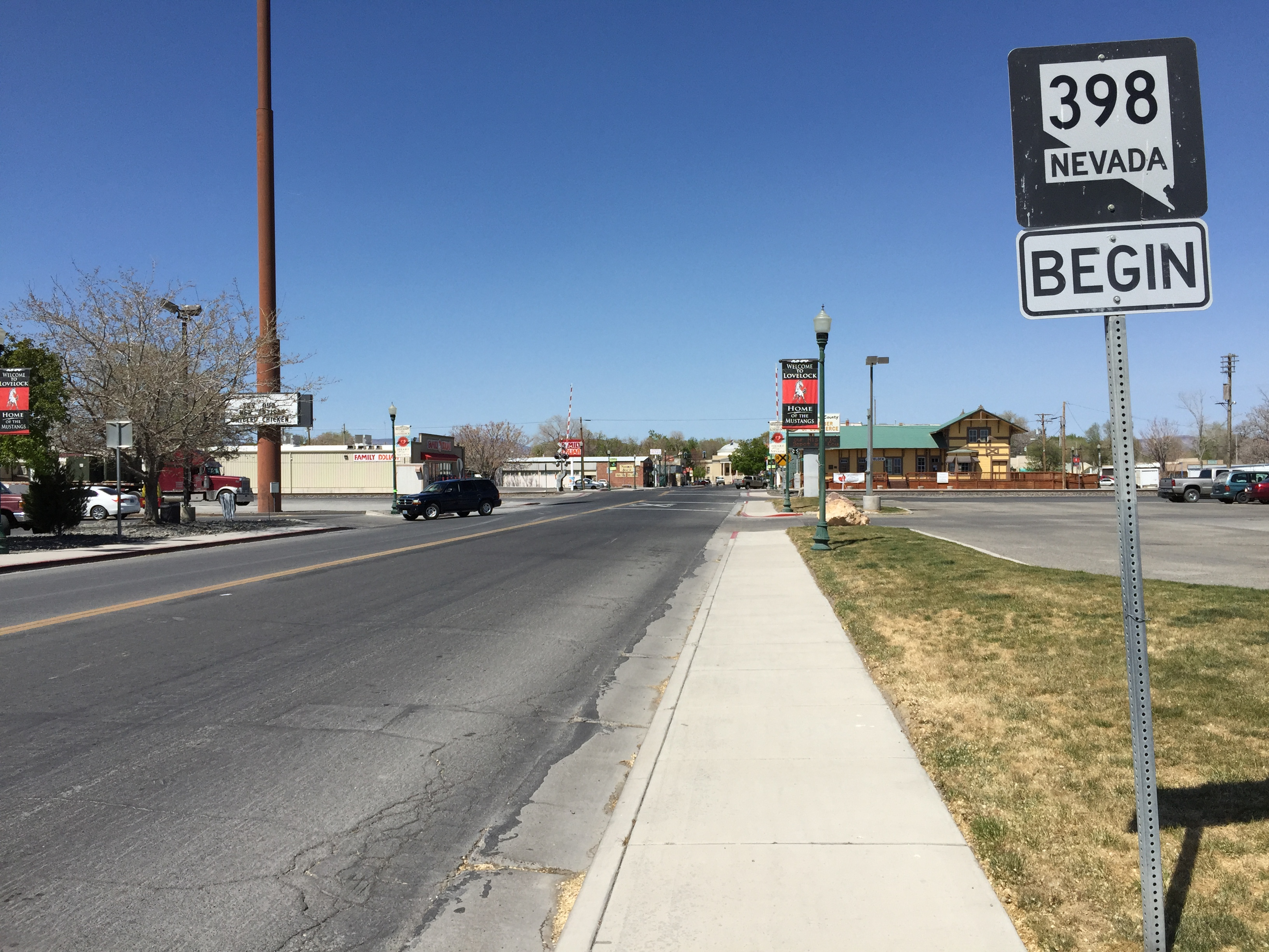 View northwest from the southeast end of Main Street (Nevada State Route 398) near Interstate 80 in Lovelock, Nevada